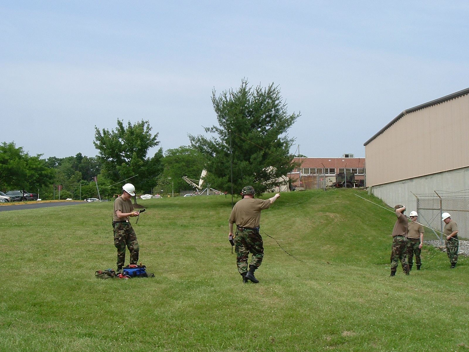 MARS operators putting an HF antenna up at Ft. Meade for Grecian Firebolt 2005.